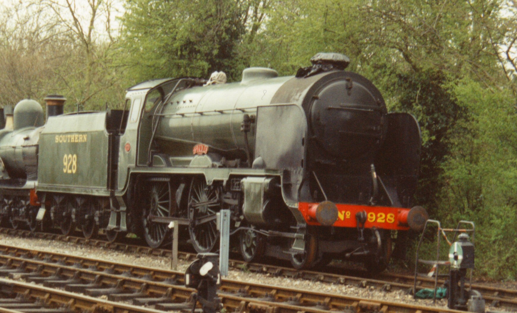 Schools class locomotive 'Stowe', number 30928, constructed 1934 at Eastleigh, UK. Contributed by copyrightholder.